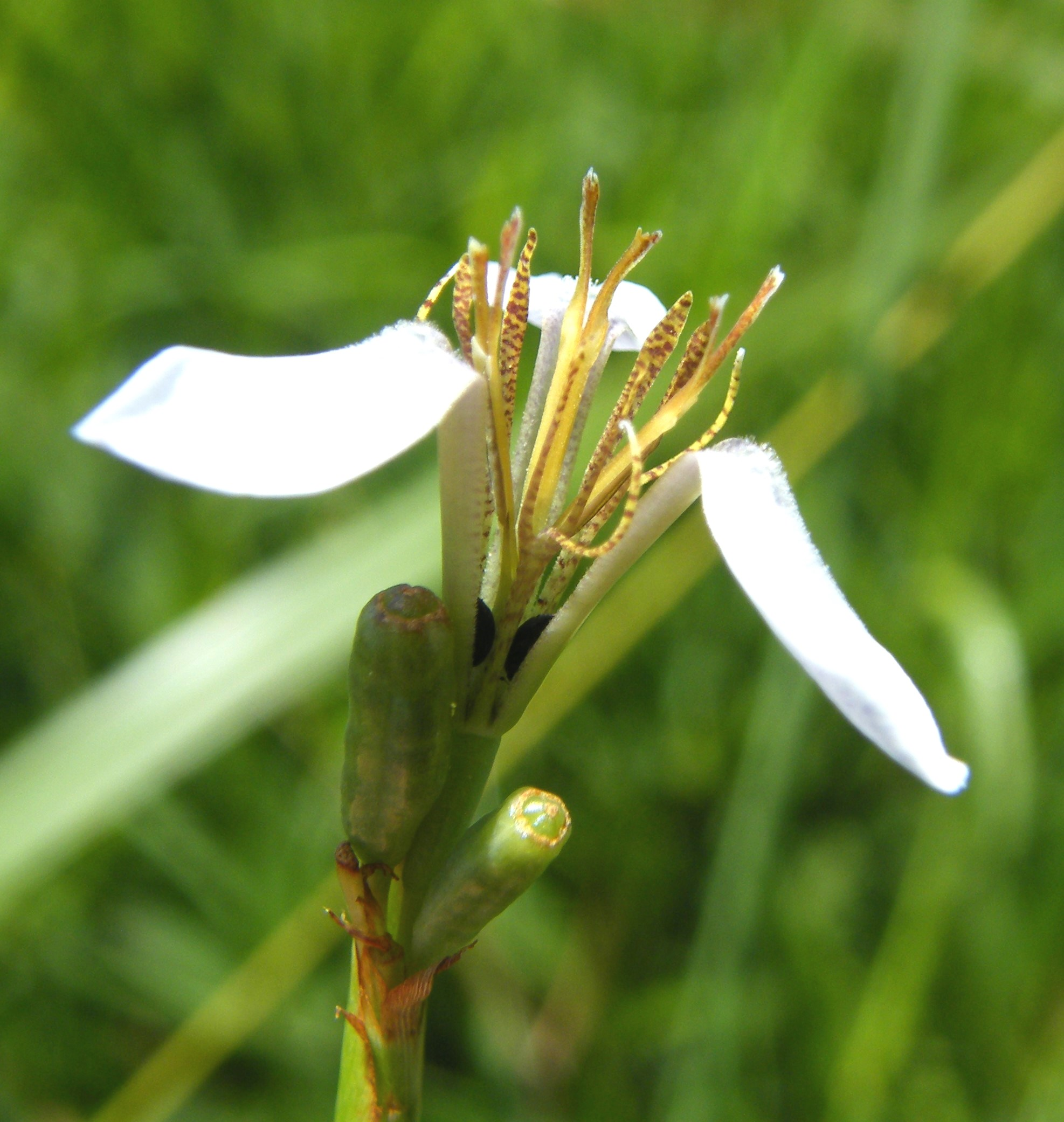 Moraea brevistyla